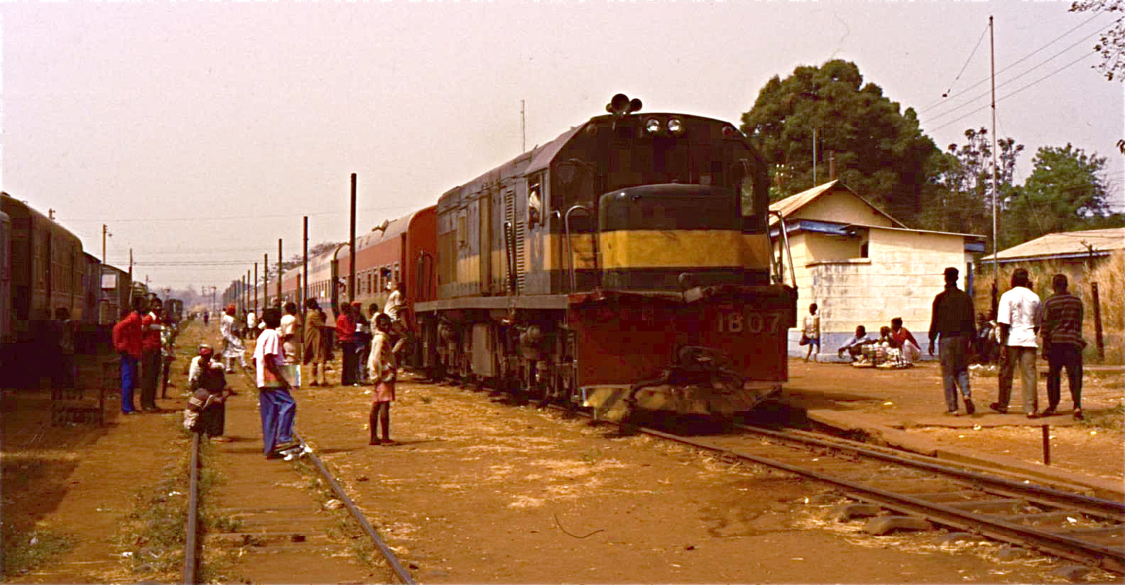 North South Railway at Makurdi, Central Nigeria.